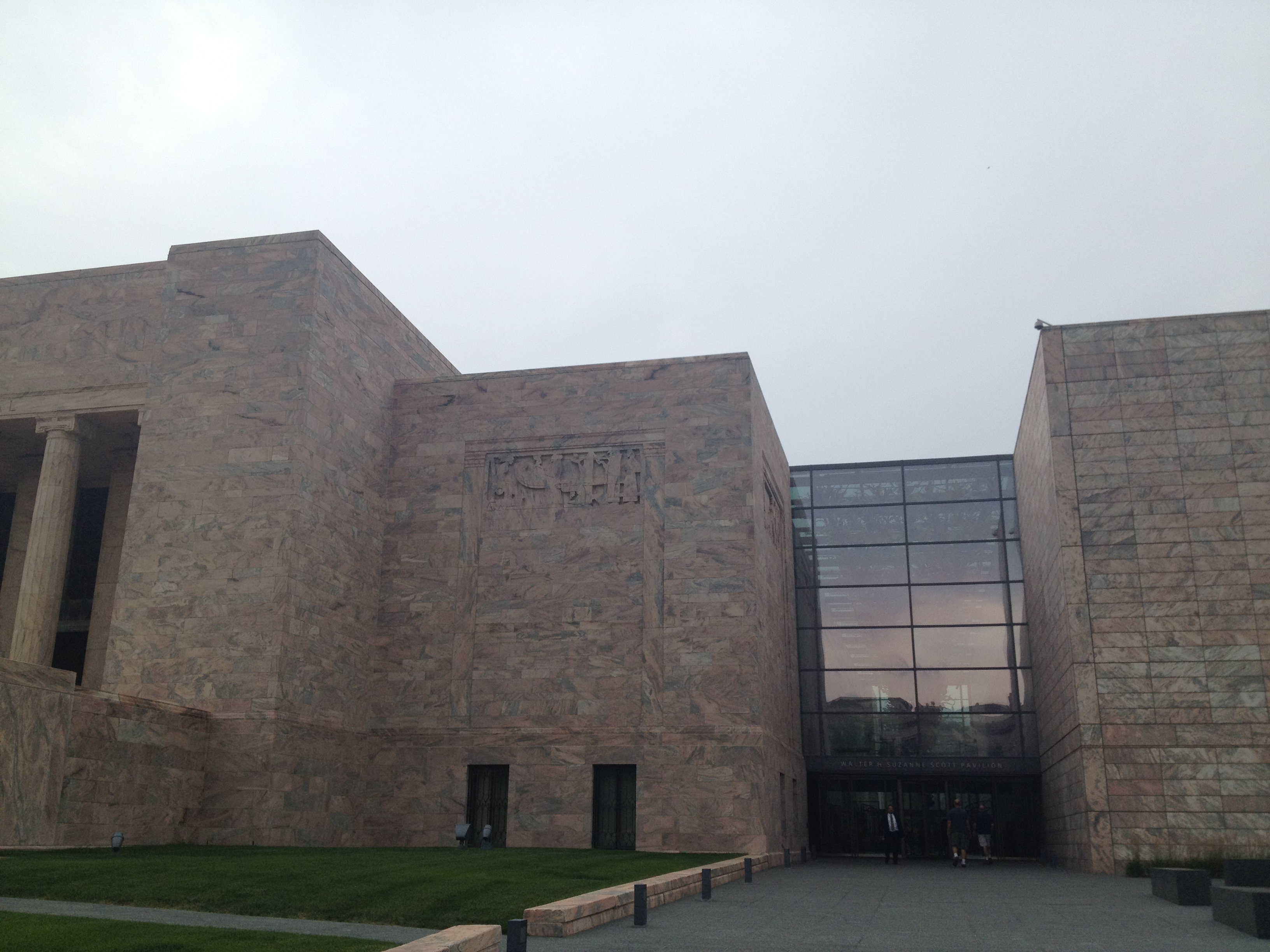 The new addition to the Joslyn Art Museum. Omaha, Nebraska